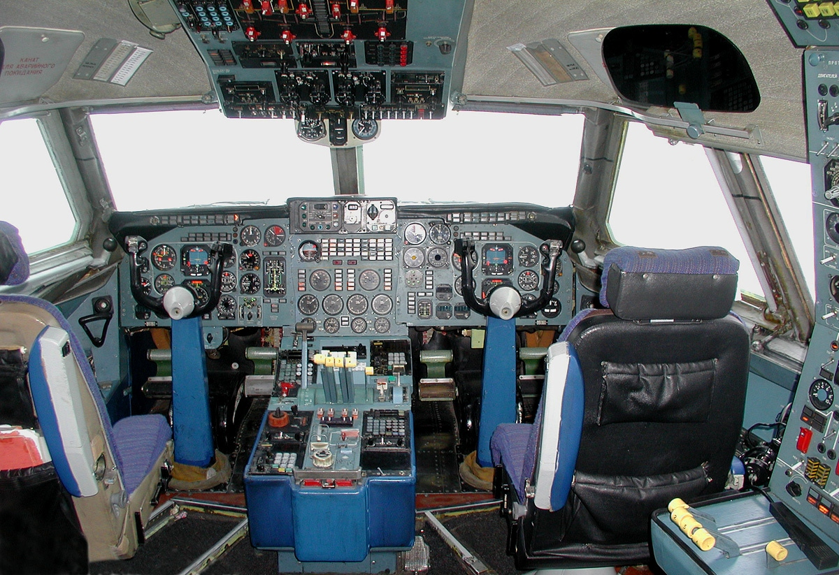 Crashed on takeoff from SVO killing 14 crew members on July 28, 2002. This is the first crash of IL-86 since it entered service in late 1980.